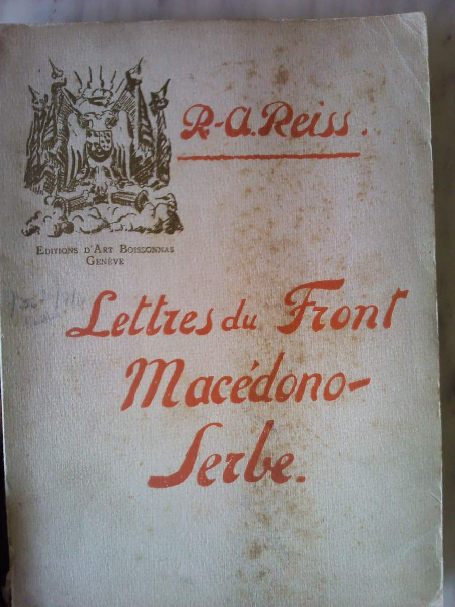 Front page of the book "Lettres du front Macédono-Serbe (1916-1918)" from Reiss, R. A. (Rodolphe Archibald), 1875-1929